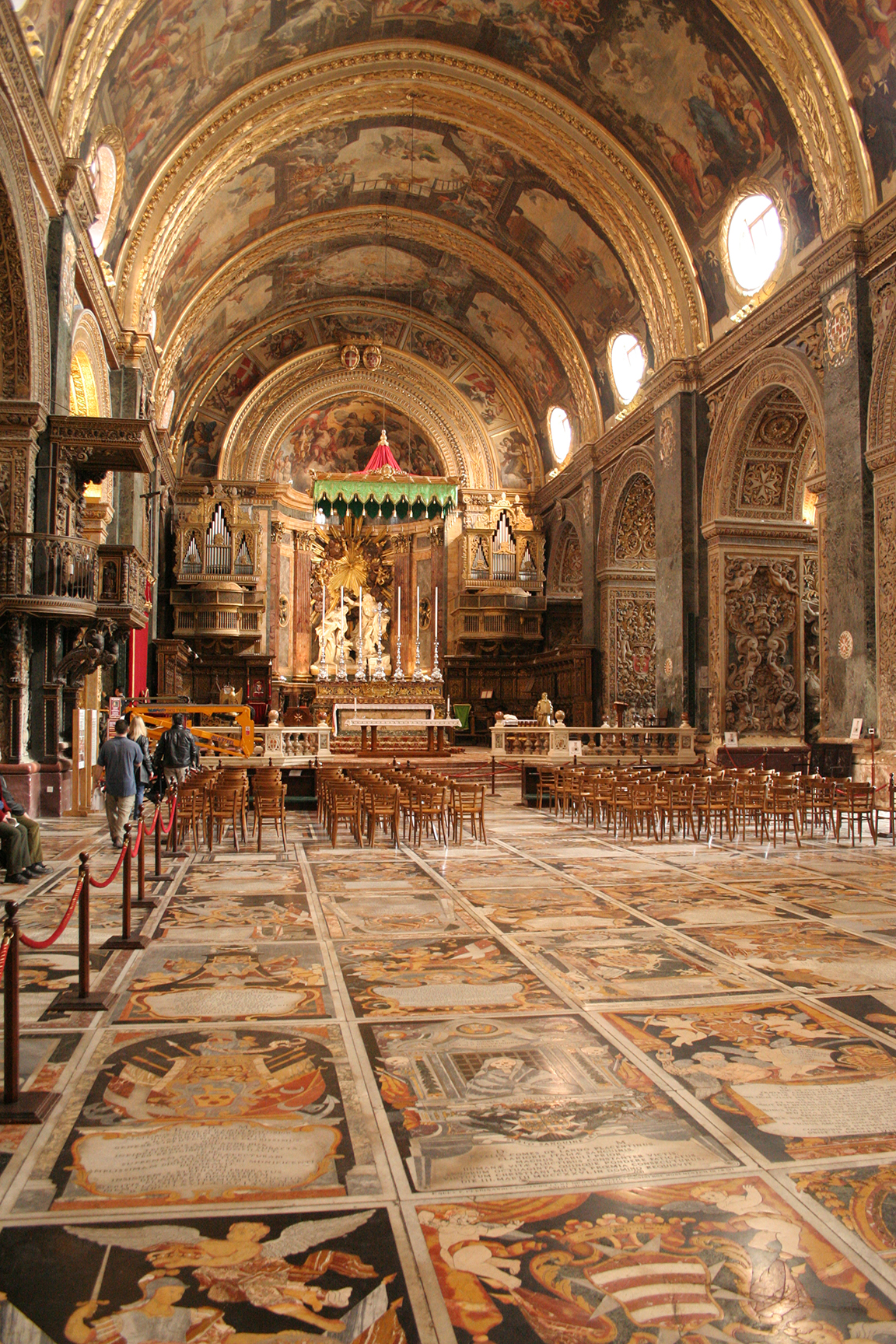 Malta, Valletta, St. John's Co-Cathedral